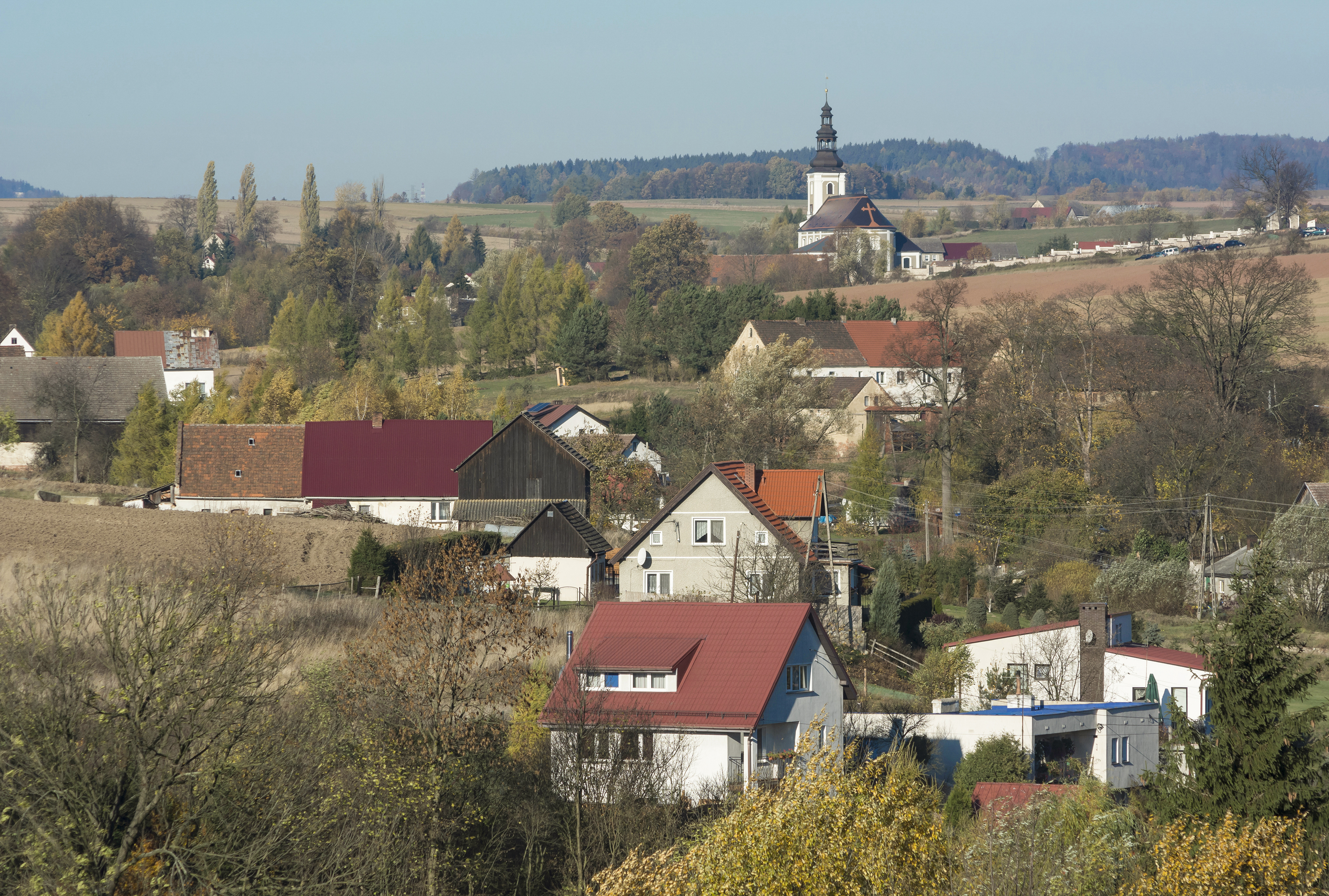 Wojbórz